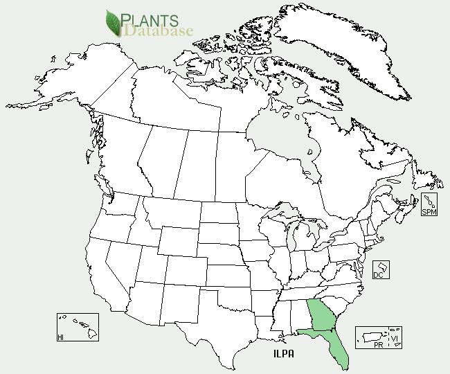 Illicium parviflorum habitat